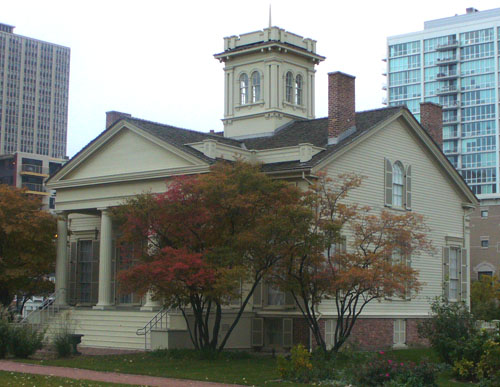 Clarke House. I took this photo myself in October 2008, and have full rights to post it on the page. Prairieavenue (talk) 15:08, 3 December 2008 (UTC) Prairieavenue (talk) 16:22, 5 December 2008 (UTC)